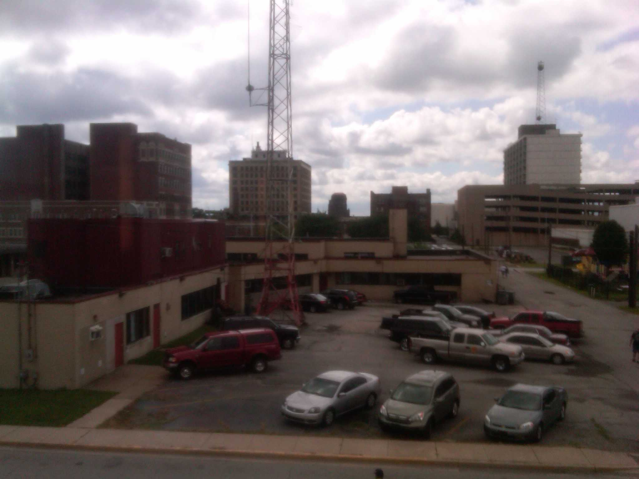 View of Downtown Gary looking west from the US Steel Yard